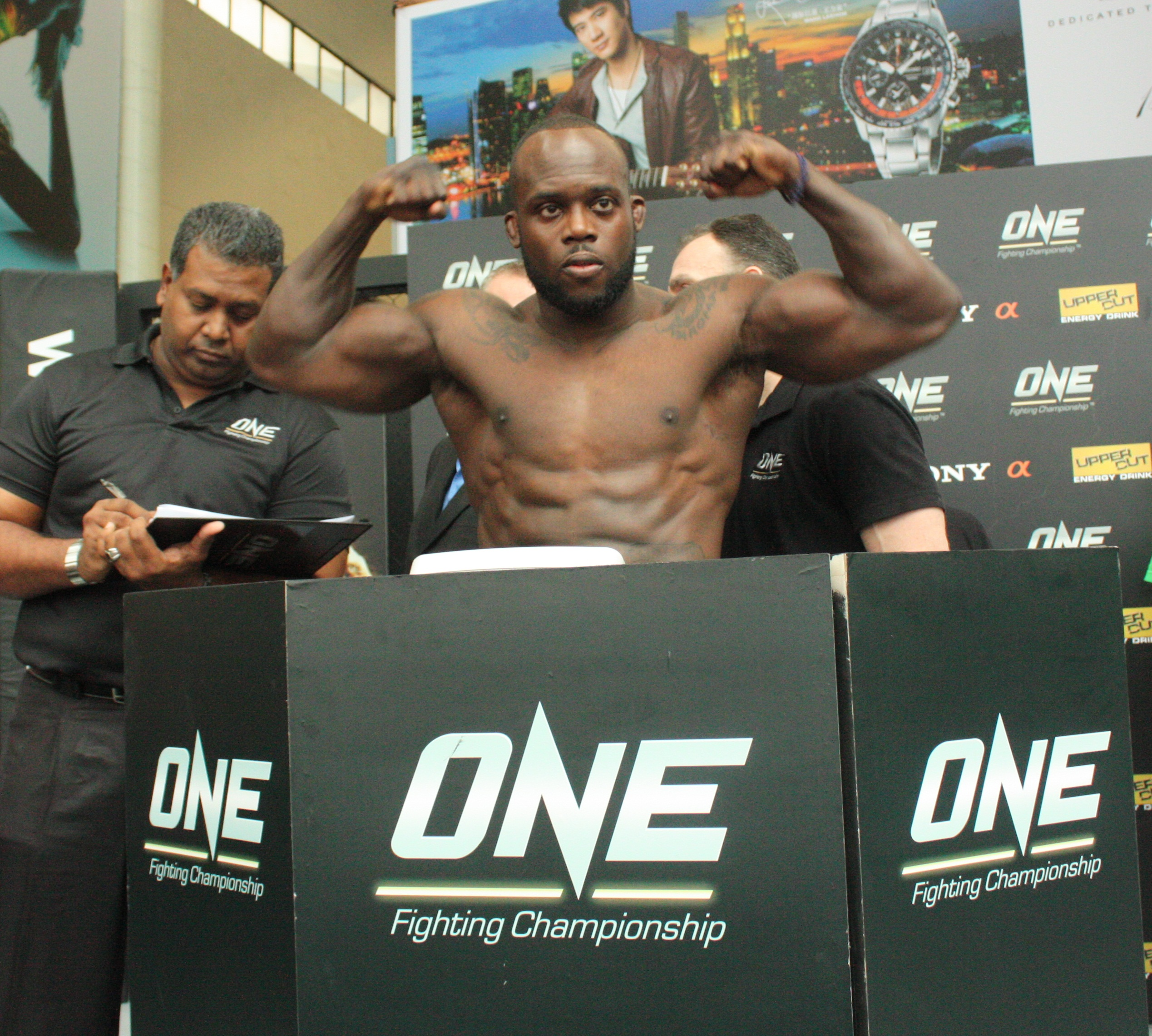 Melvin Manhoef at the ONE Fighting Championship 'War of the Lions' Weigh In